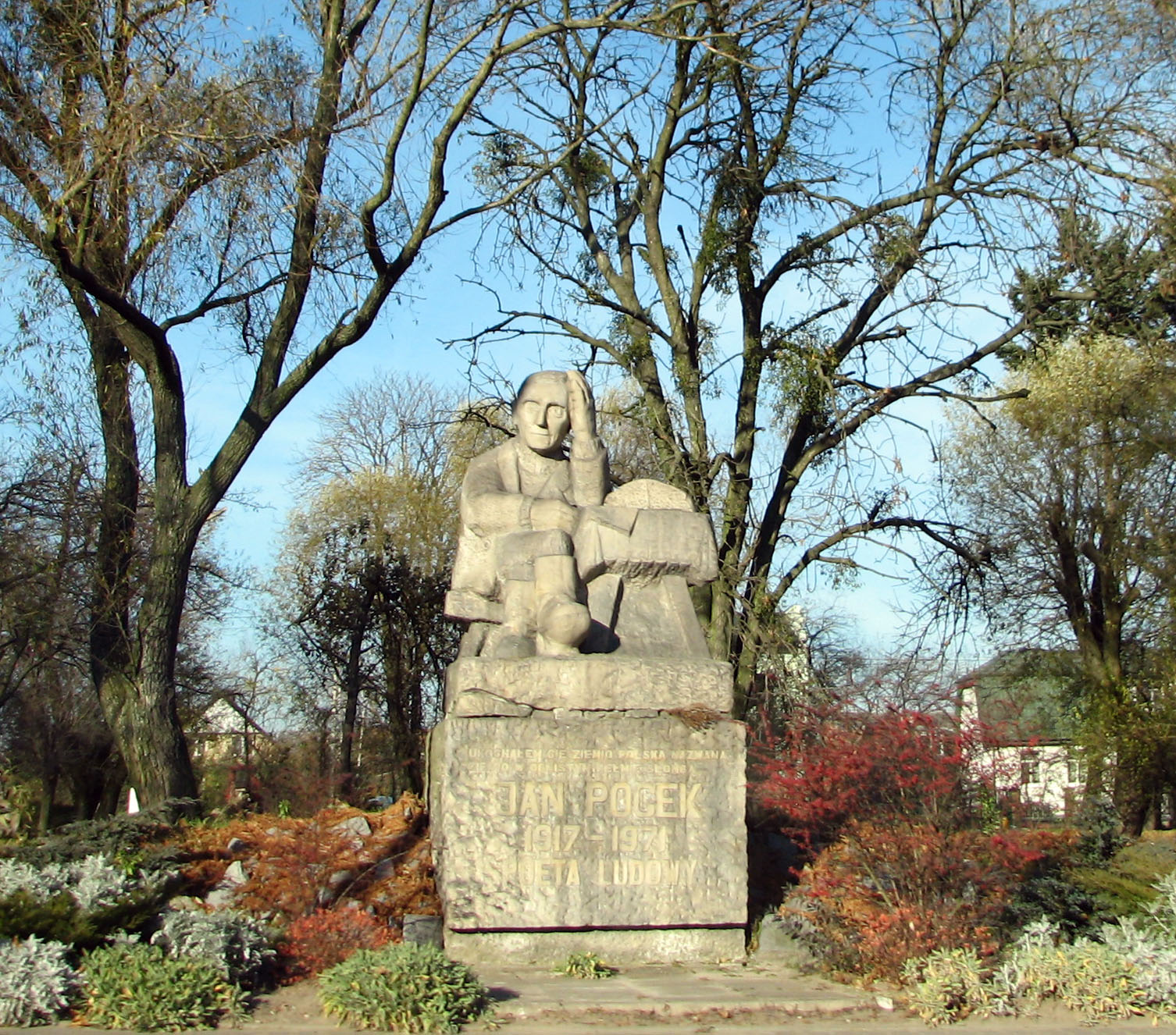 Jan Pocek's monument, Markuszów, Poland